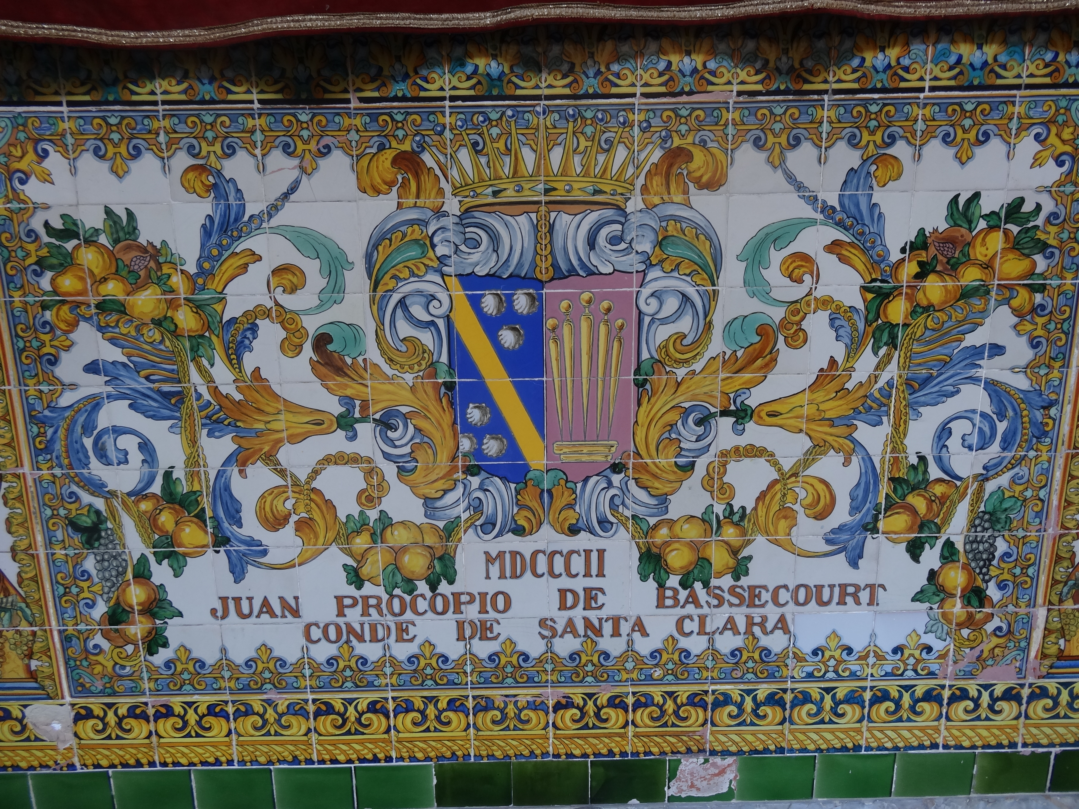 Decorated tiles at the cloister of the former Convent de la Mercè, Capitania General de Barcelona